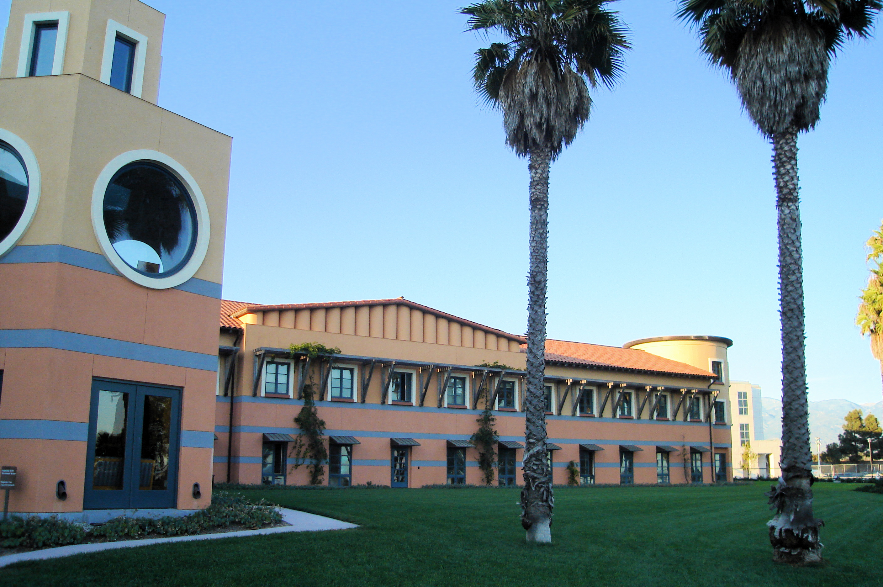 Lovely oceanside facility for UC Santa Barbara's Kavli Institute for Theoretical Physics, designed by Michael Graves. David Gross is the Institute's director as of 2006.